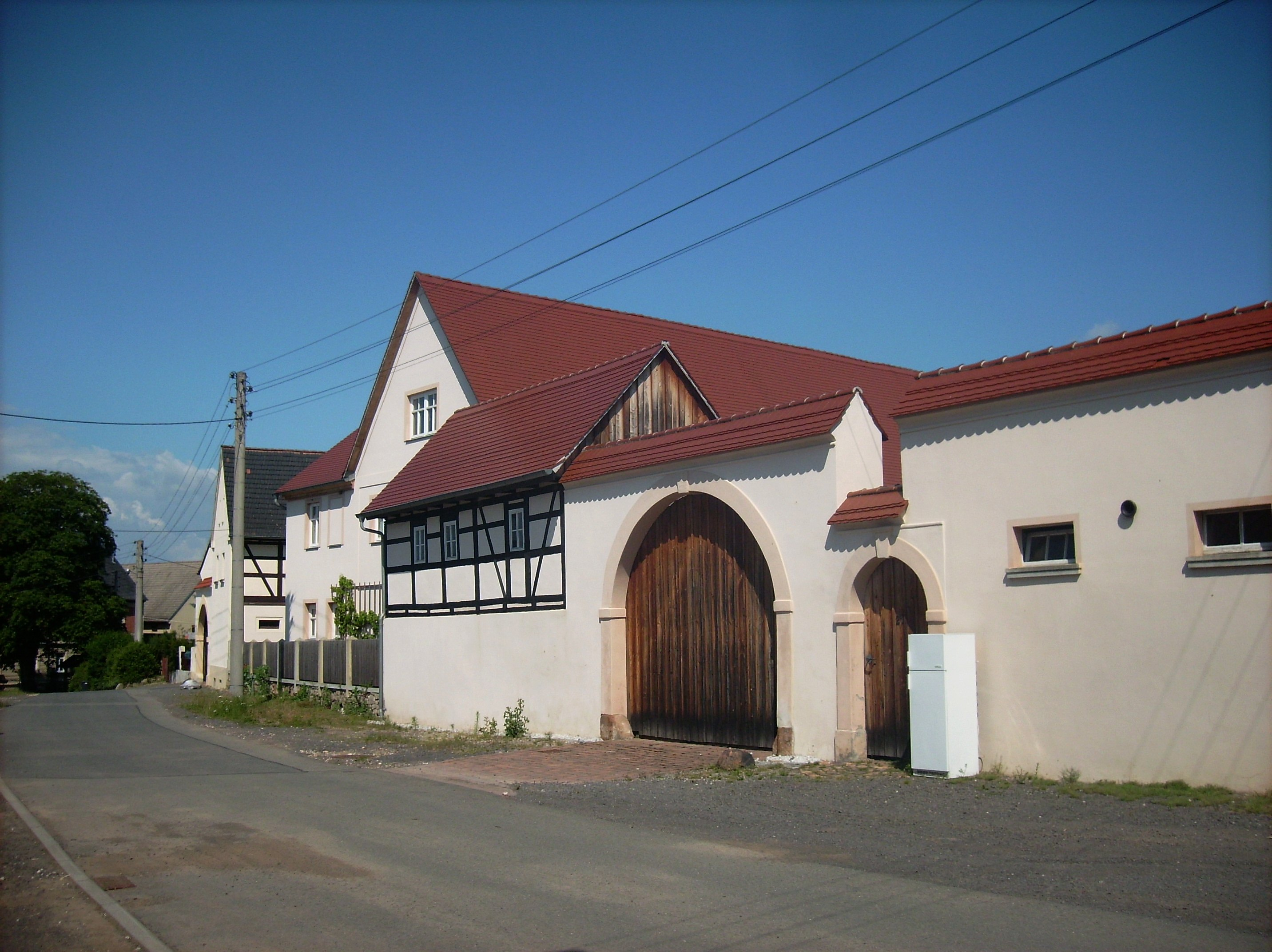 At Dorfring in Pähnitz (Windischleuba, district of Altenburgger Land, Thuringia)